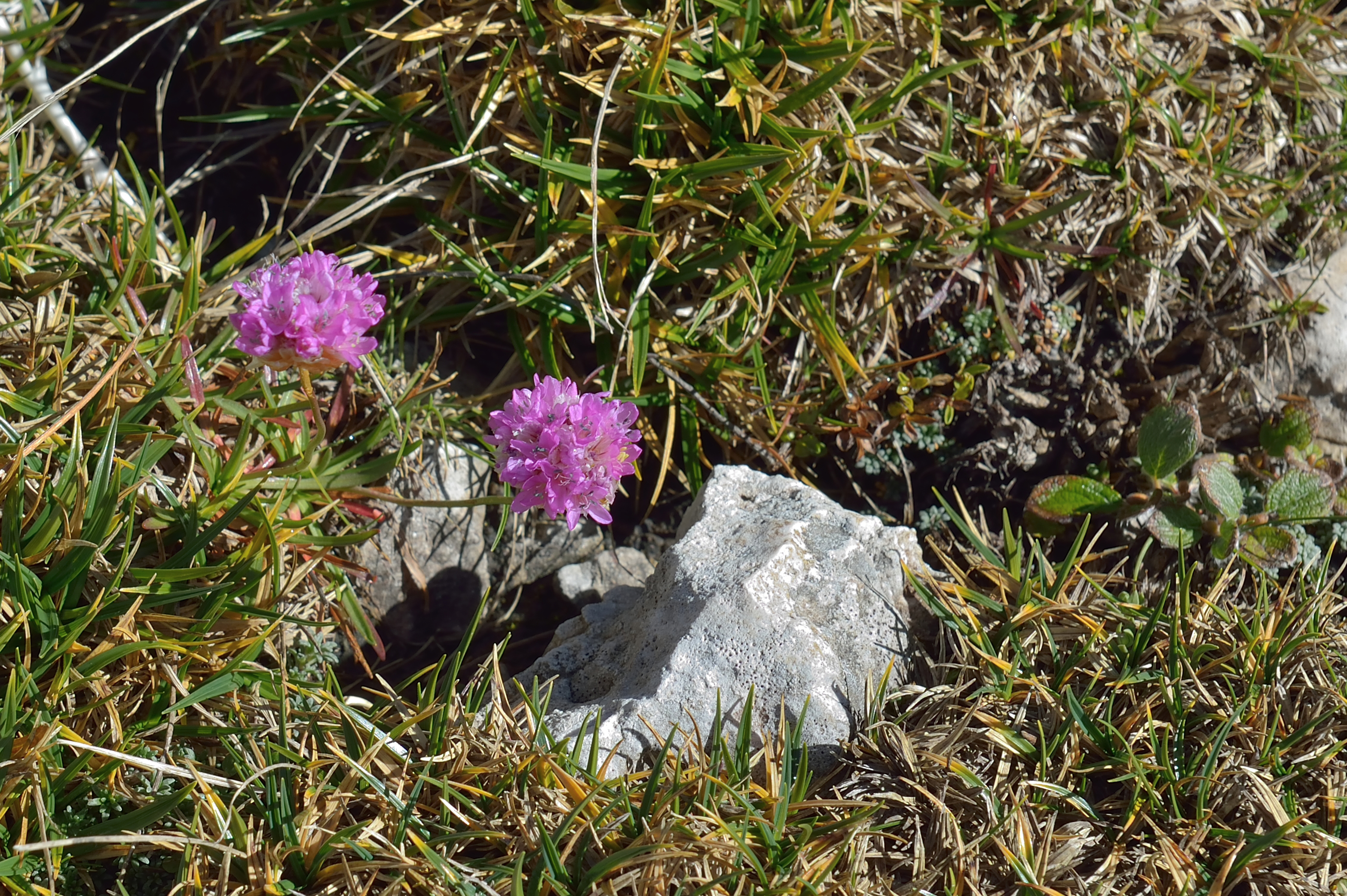 The armeria alpina on the "Mont dal ega" in Gröden, (Dolomites)